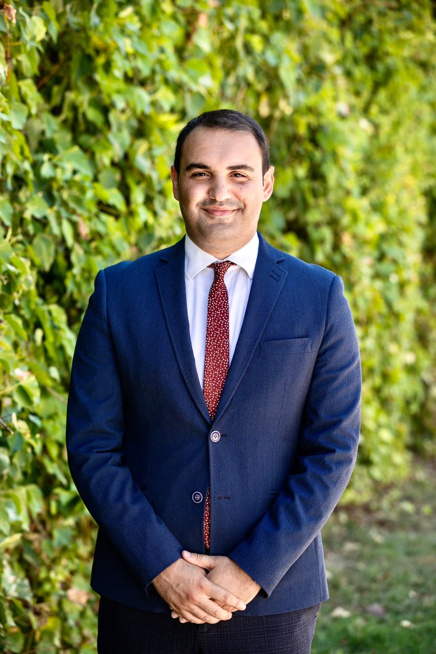 Belind Këlliçi posing for a picture